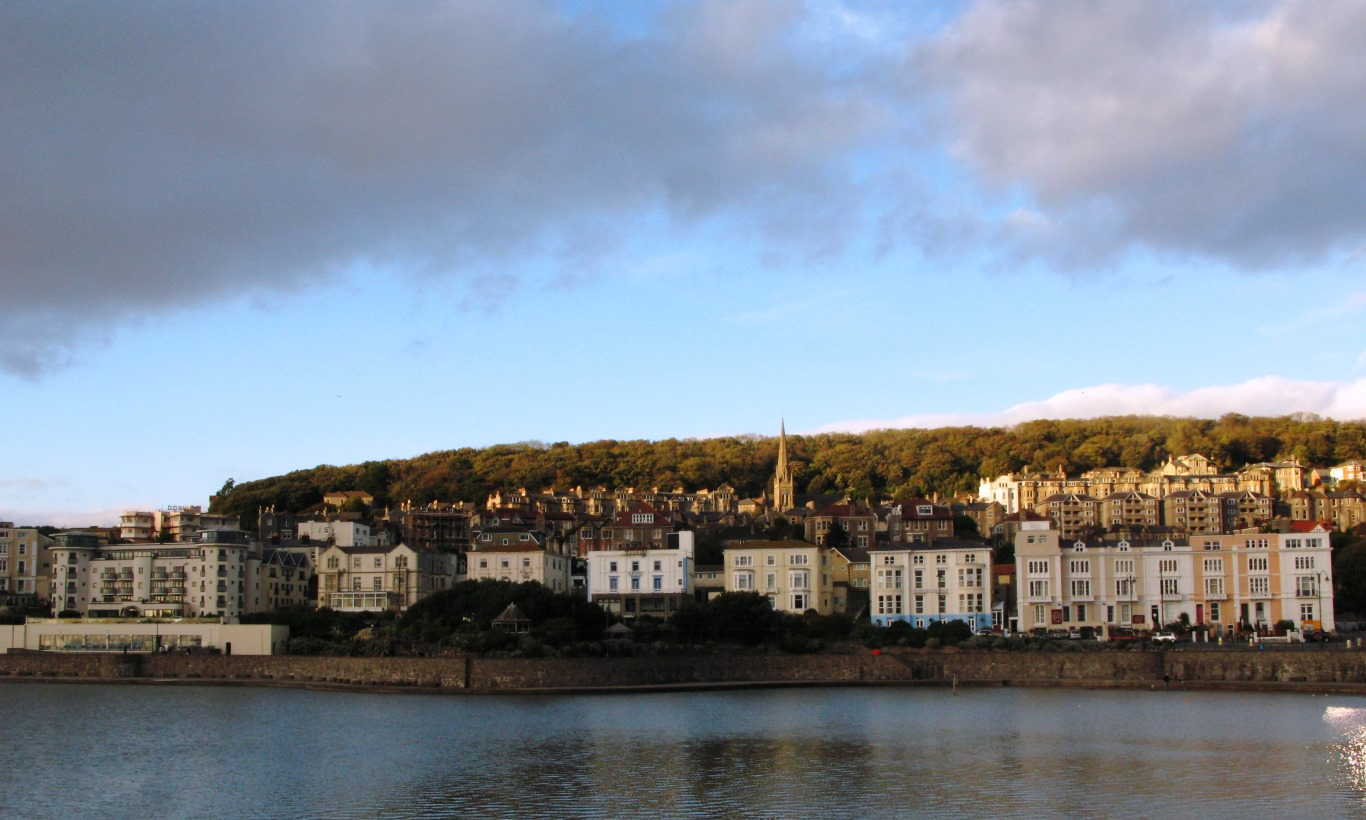 Worlebury Hill forms a natural barrier at the north end of Weston-super-Mare, North Somerset, England, viewed across the Marine Lake from Knightstone Island.